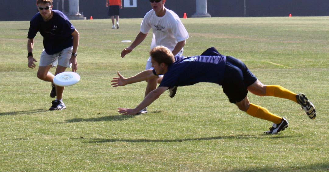 Source: Adam Ginsburg Pictures from college sectionals 2005 in Dallas